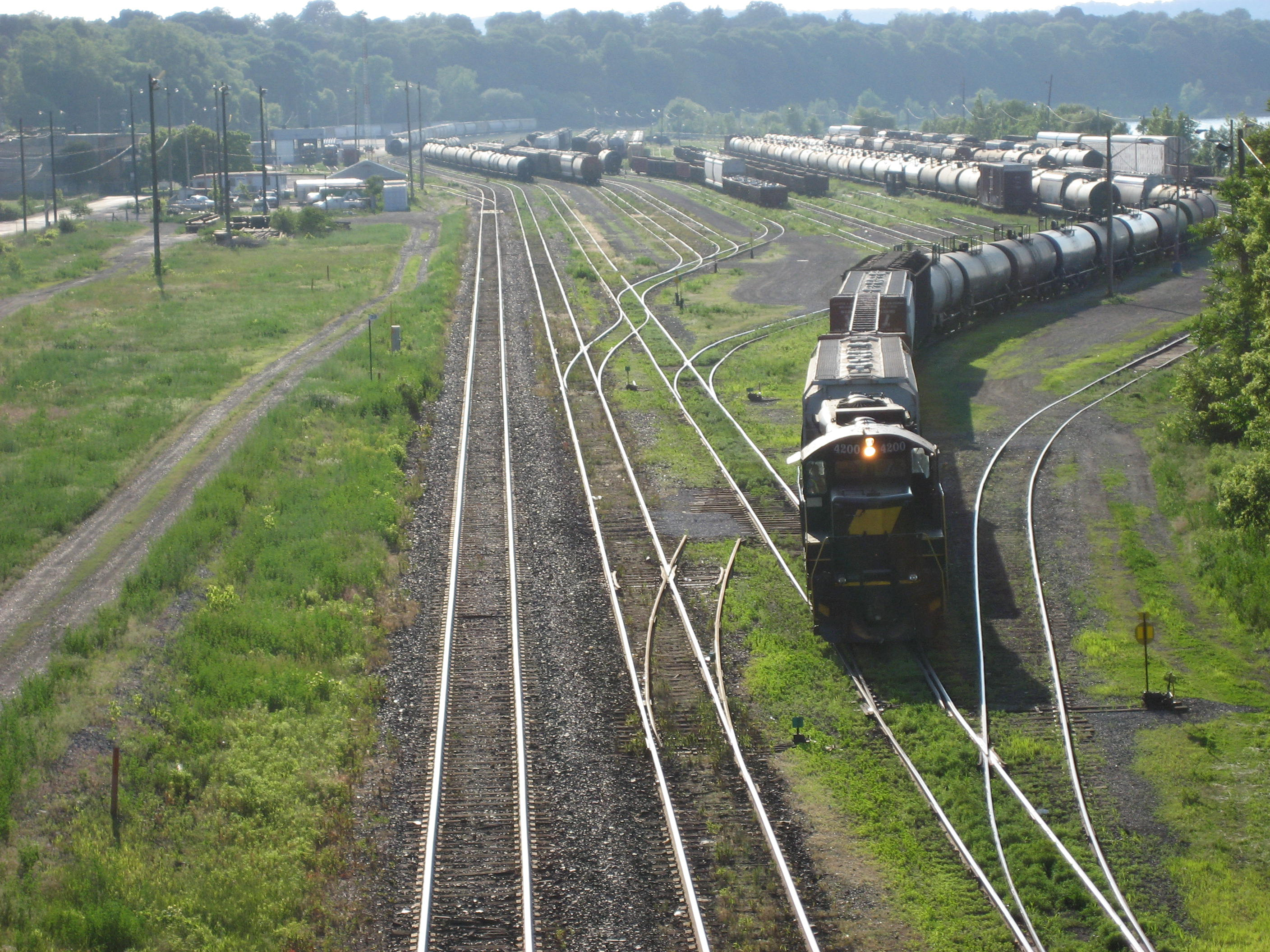 Canadian National Railway Yard, North-End, Hamilton, Ontario